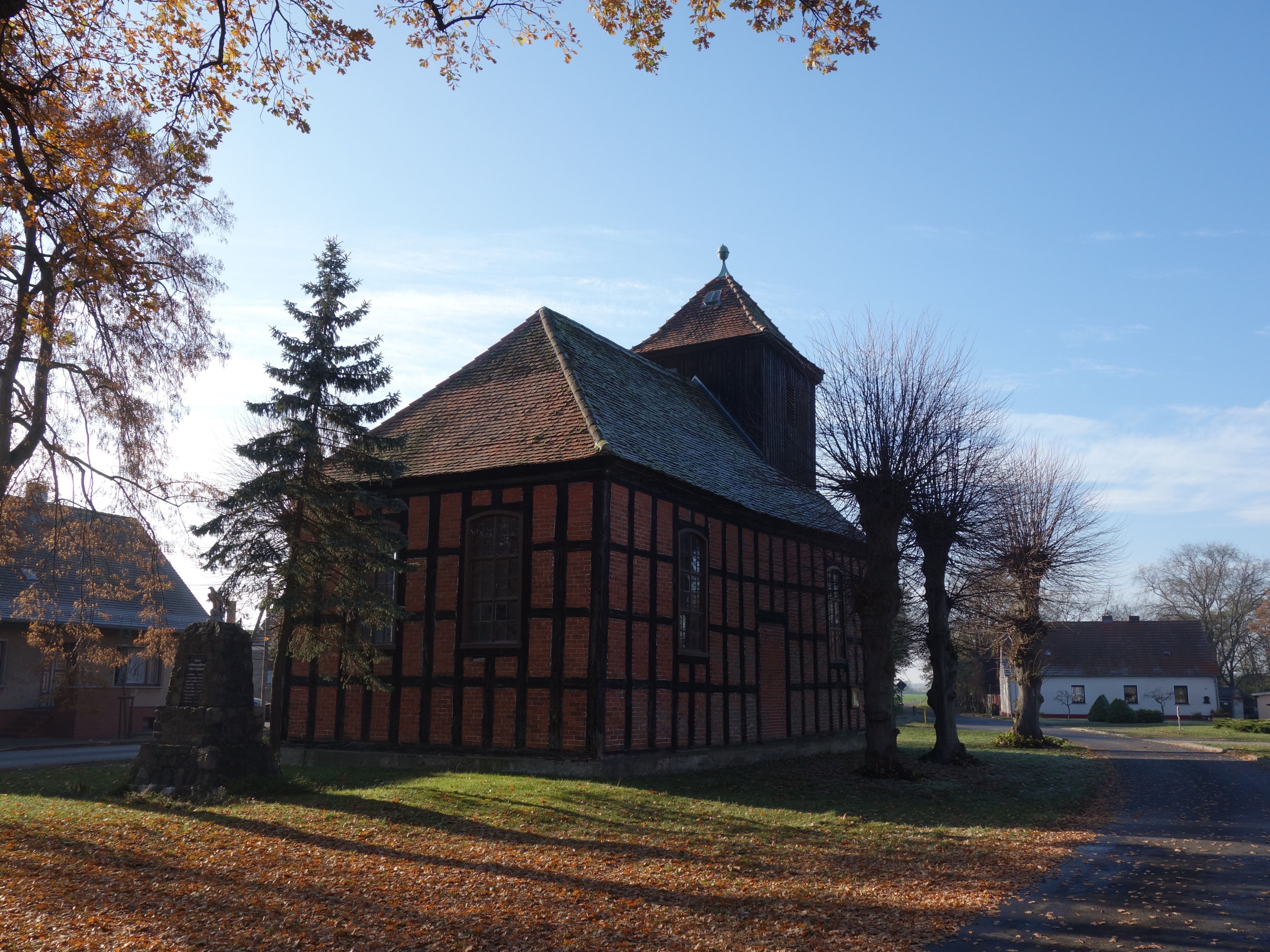 North-eastern view of church in Wolsier, Havelaue municipality, Havelland district, Brandenburg state, Germany